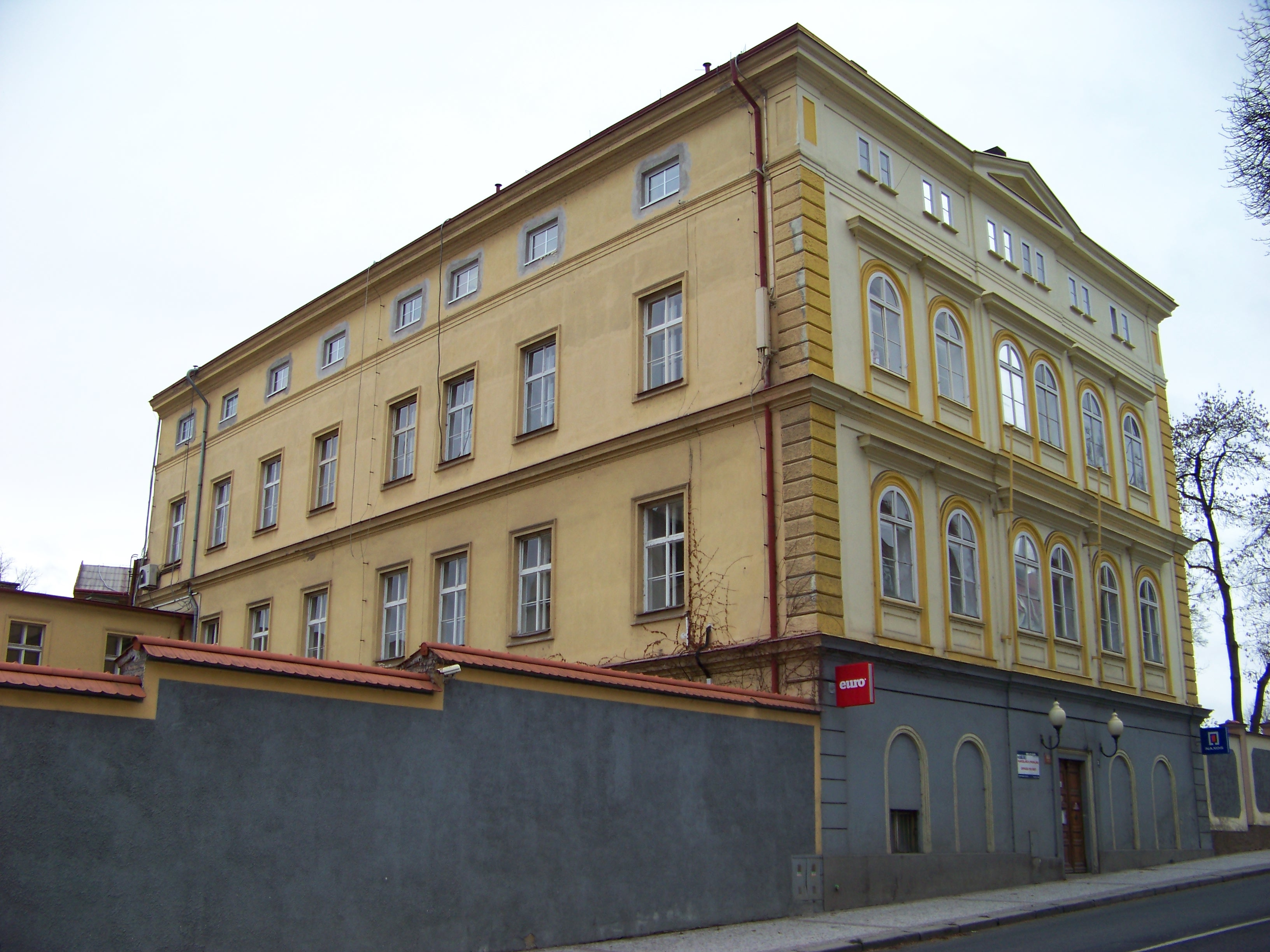 Prague-Smíchov, the Czech Republic. Holečkova 103/31, a monastery of Ladies of Sacred Heart. - OpenStreetMap(Info)